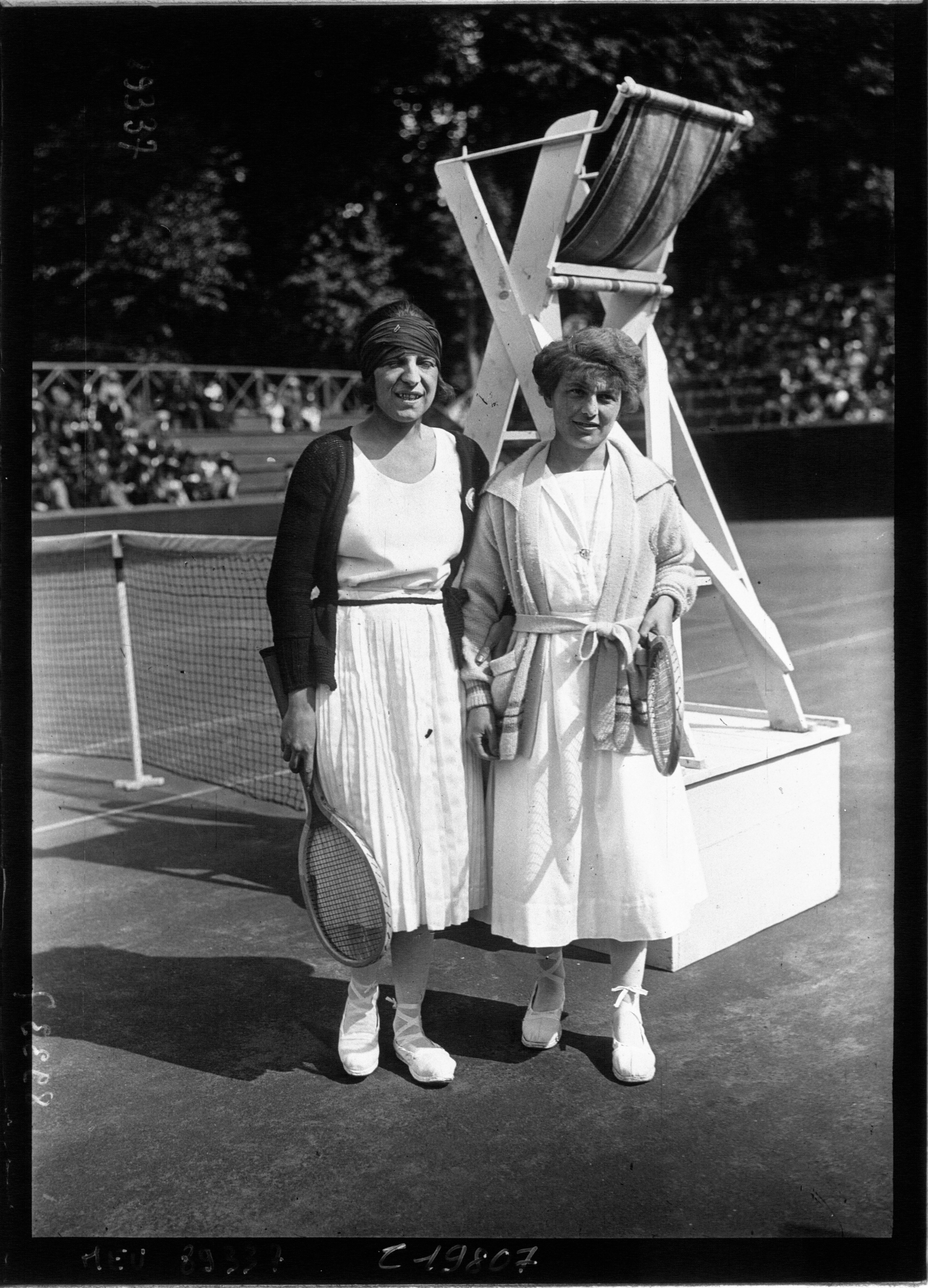 Tennis players Suzanne Lenglen and Germaine Golding at the French Championships in 1921.